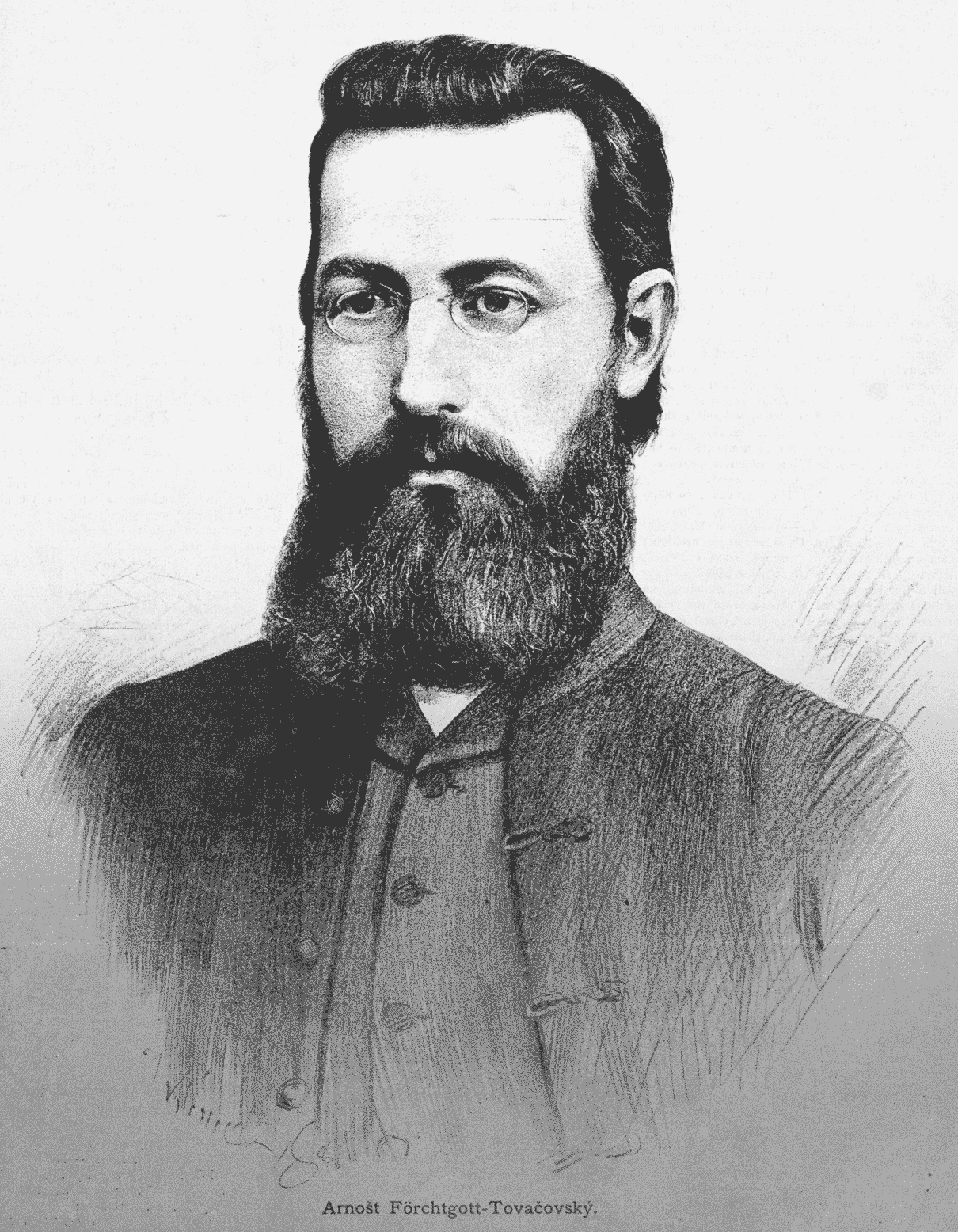 Portrait of Arnošt Förchtgott-Tovačovský (1825-1874), Czech composer.